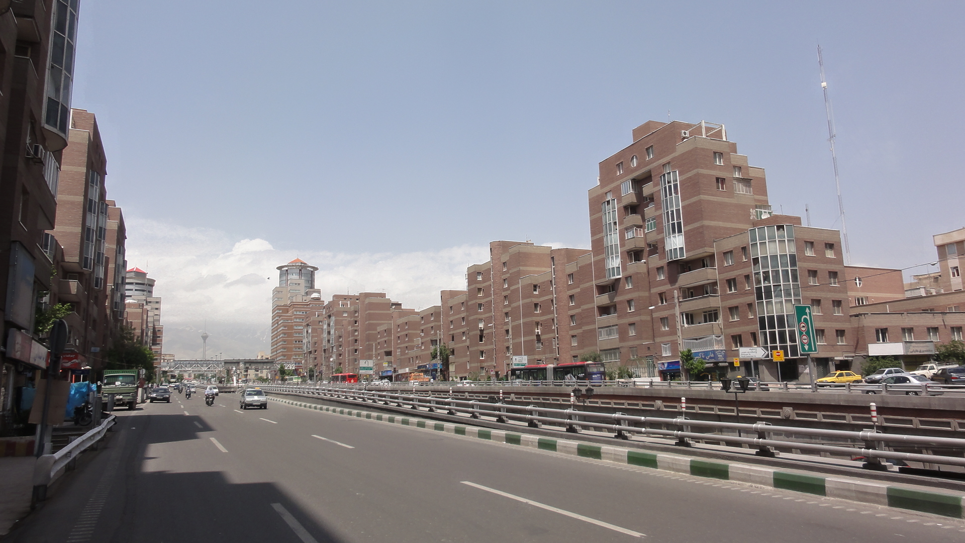 North Salsabil, Tehran, Tehran Province, Iran